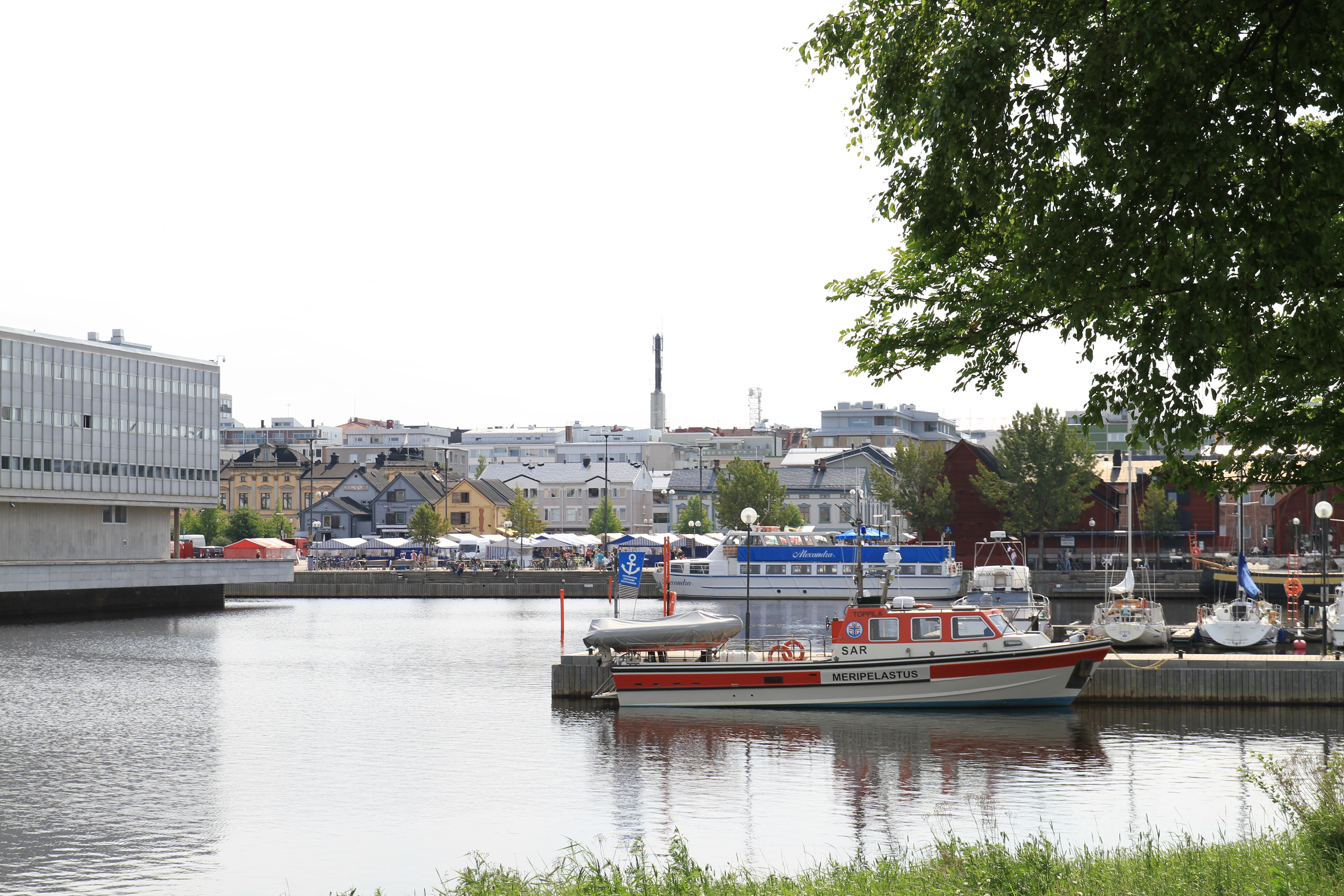 Oulu from Elba island